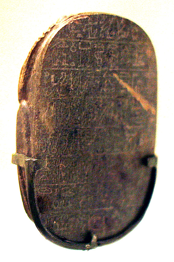 Heart Scarab, late 9-early 8th century B.C.E. Stone. Brooklyn Museum, Charles Edwin Wilbour Fund, 61.10. Wikipedia Loves Art at the Brooklyn Museum This photo of item # [1] at the Brooklyn Museum was contributed under the team name "shooting_brooklyn" as part of the Wikipedia Loves Art project in February 2009. Brooklyn Museum The original photograph on Flickr was taken by shooting brooklyn—please add a comment to the original Flickr page whenever a use has been made on Wikipedia or another project. Project galleries on Flickr: this institution, this team